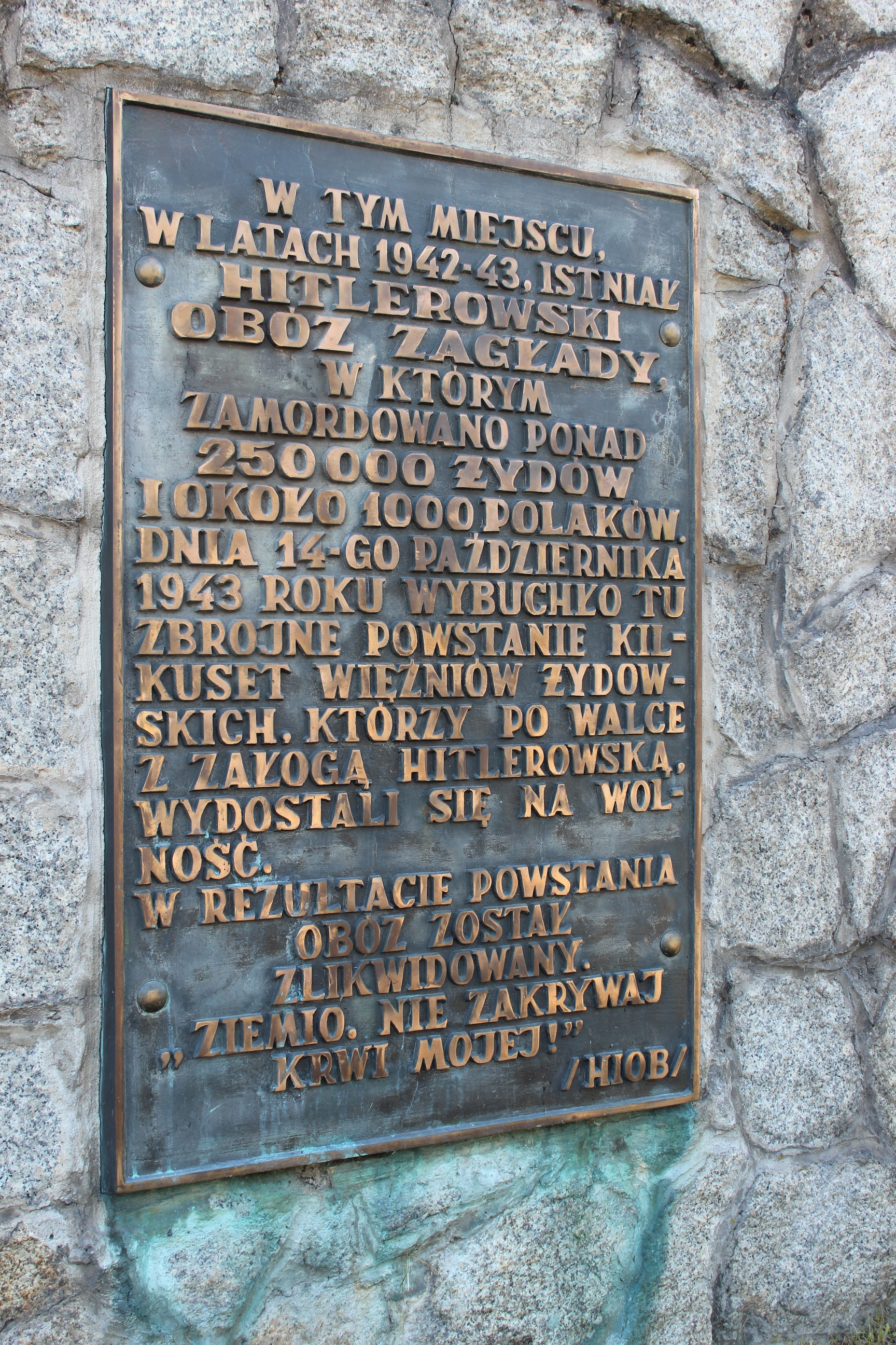 Sobibór german extermination camp